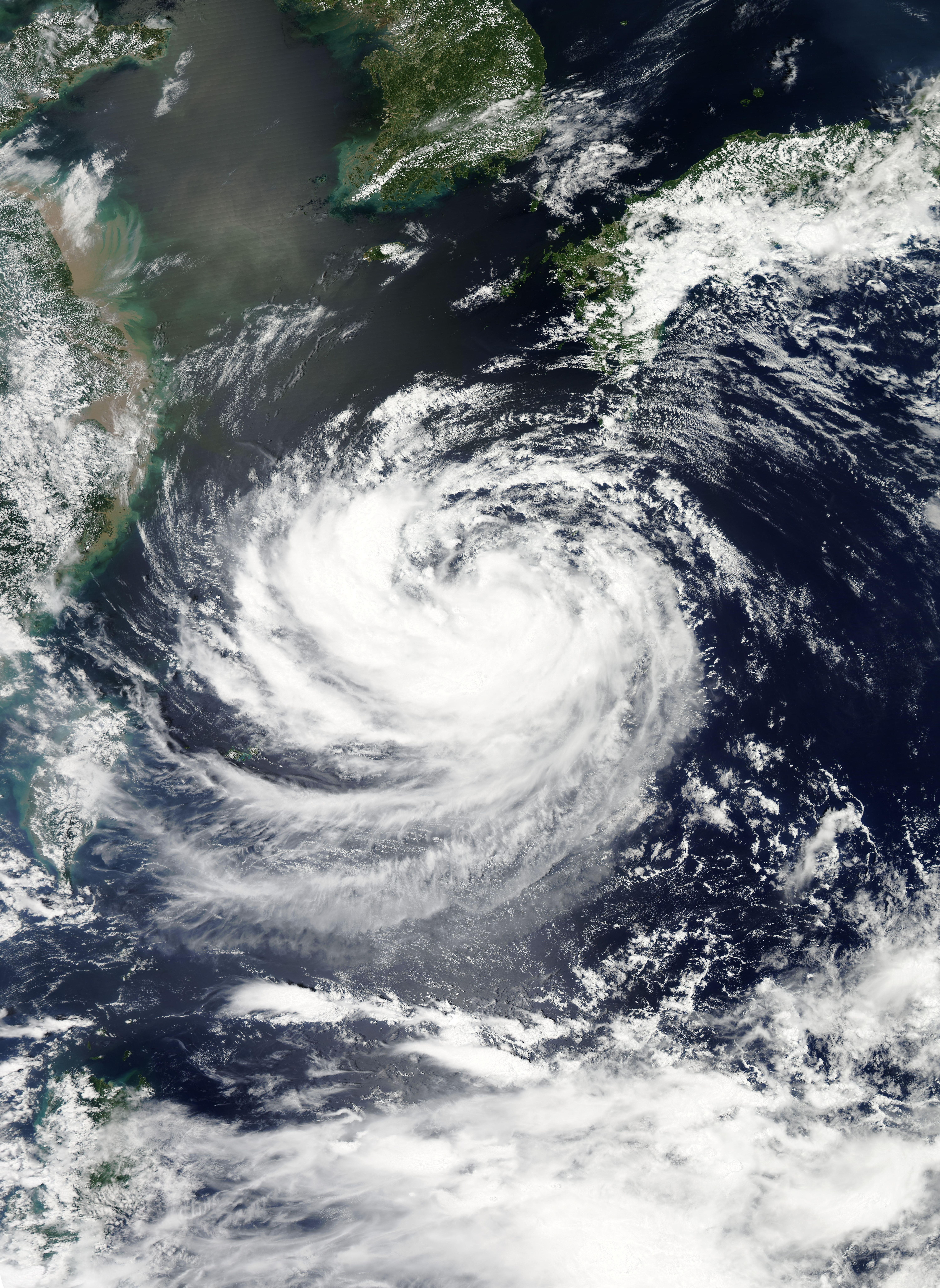 Tropical Storm Haikui with an annular shape.